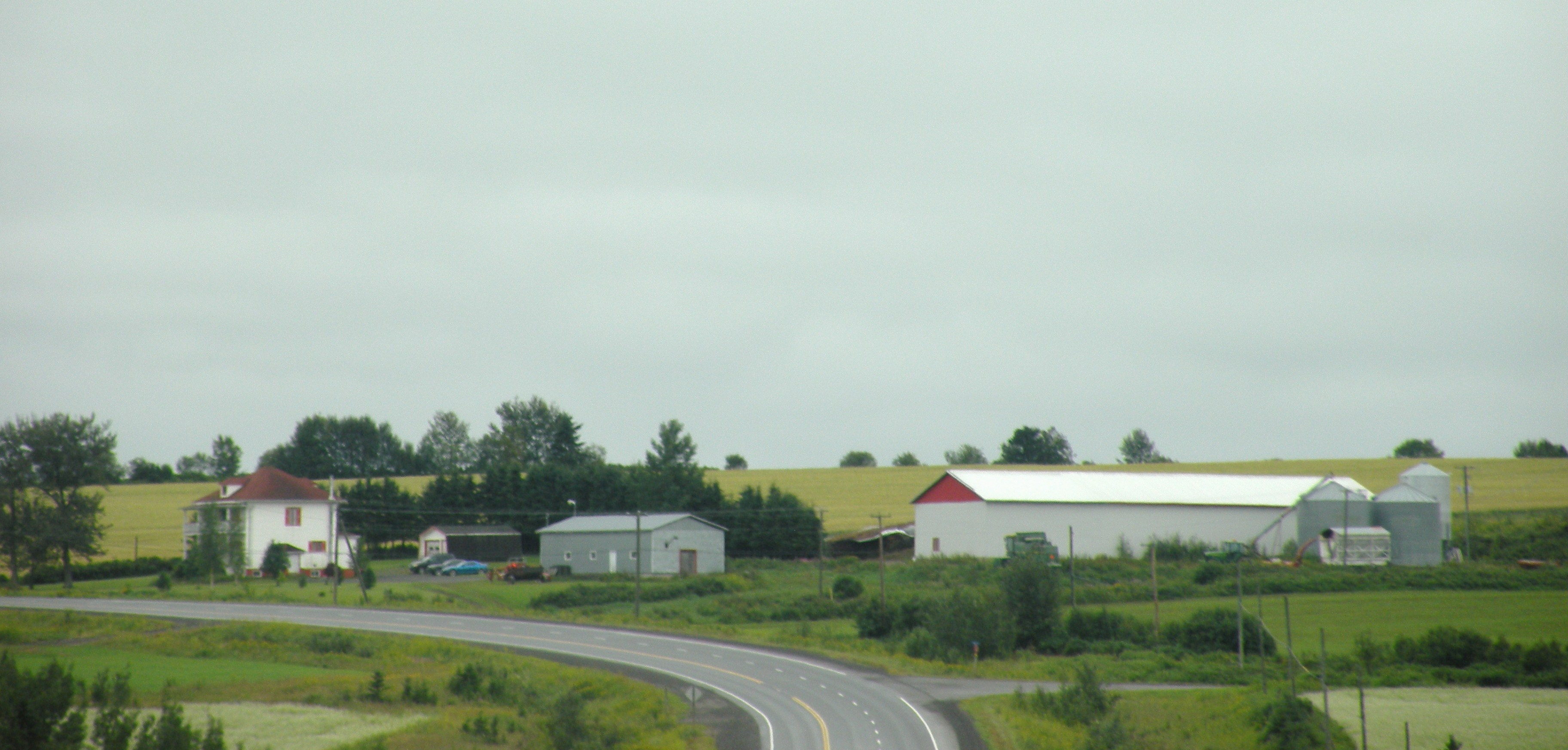 A farm along road 17 in Rang-Double-Nord, New Brunswick.